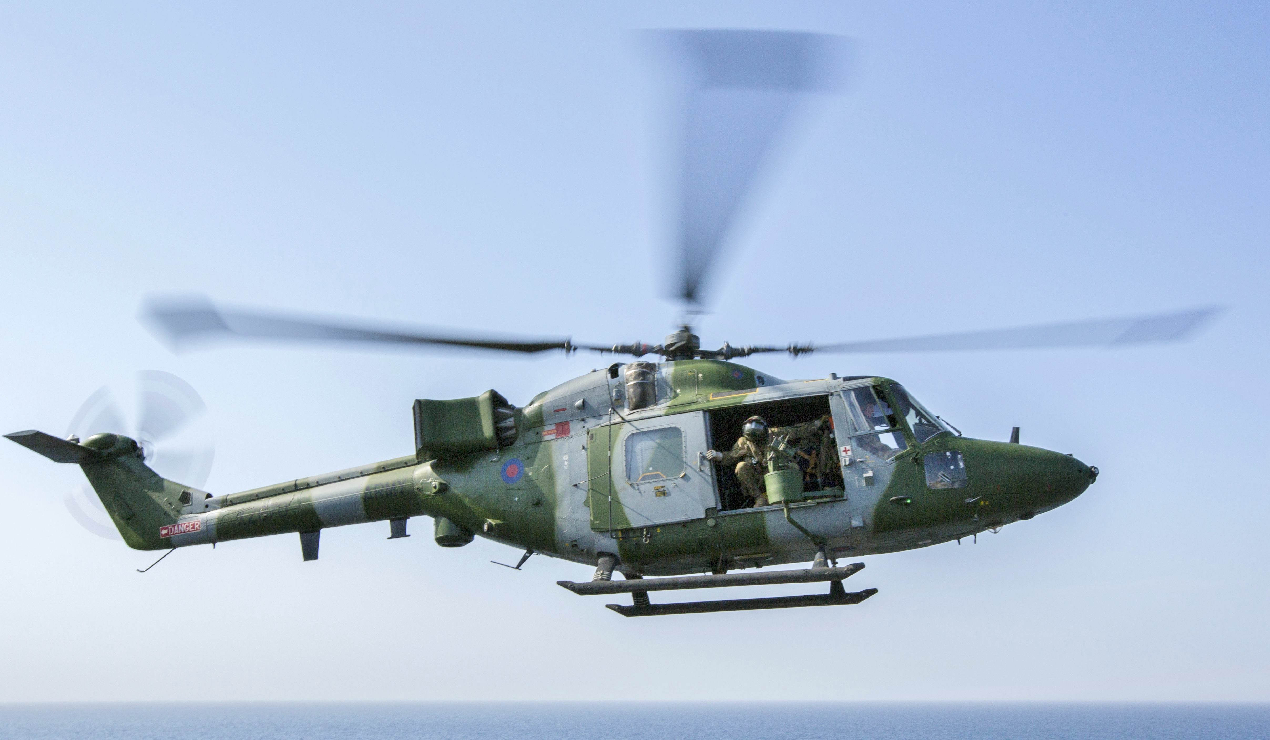 130915-M-SO289-008 U.S. 5th FLEET AREA OF RESPONSIBILITY (Sept. 16, 2013) A United Kingdom Army Air Corps Westland Lynx battlefield helicopter lands on the flight deck of the amphibious assault ship USS Kearsarge (LHD 3). Kearsarge is the flagship for the Kearsarge Amphibious Ready Group and, with the embarked 26th Marine Expeditionary Unit (26th MEU), is deployed in support of maritime security operations and theater security cooperation efforts in the U.S. 5th Fleet area of responsibility. (U.S. Marine Corps photo by Sgt. Christopher Q. Stone/Released)